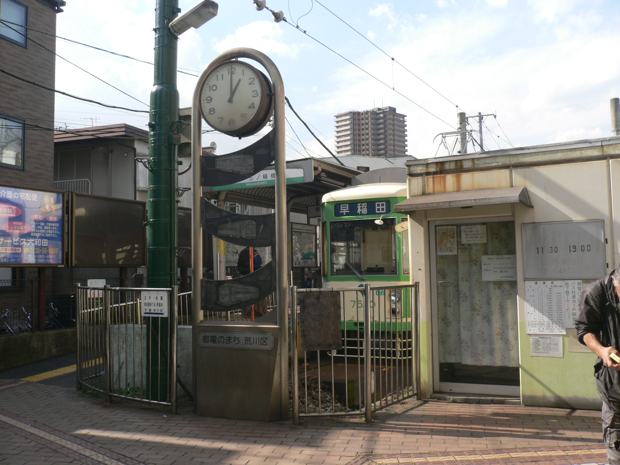 Minowabashi Station (三ノ輪橋駅), Arakawa W, Tokyo M.